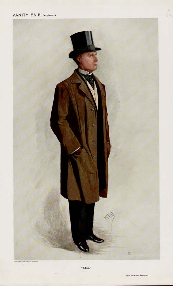 Men of the Day No.1251: Caricature of Sir Edward Tennant, 1st Baron Glenconner MP. Caption reads: "Glen"